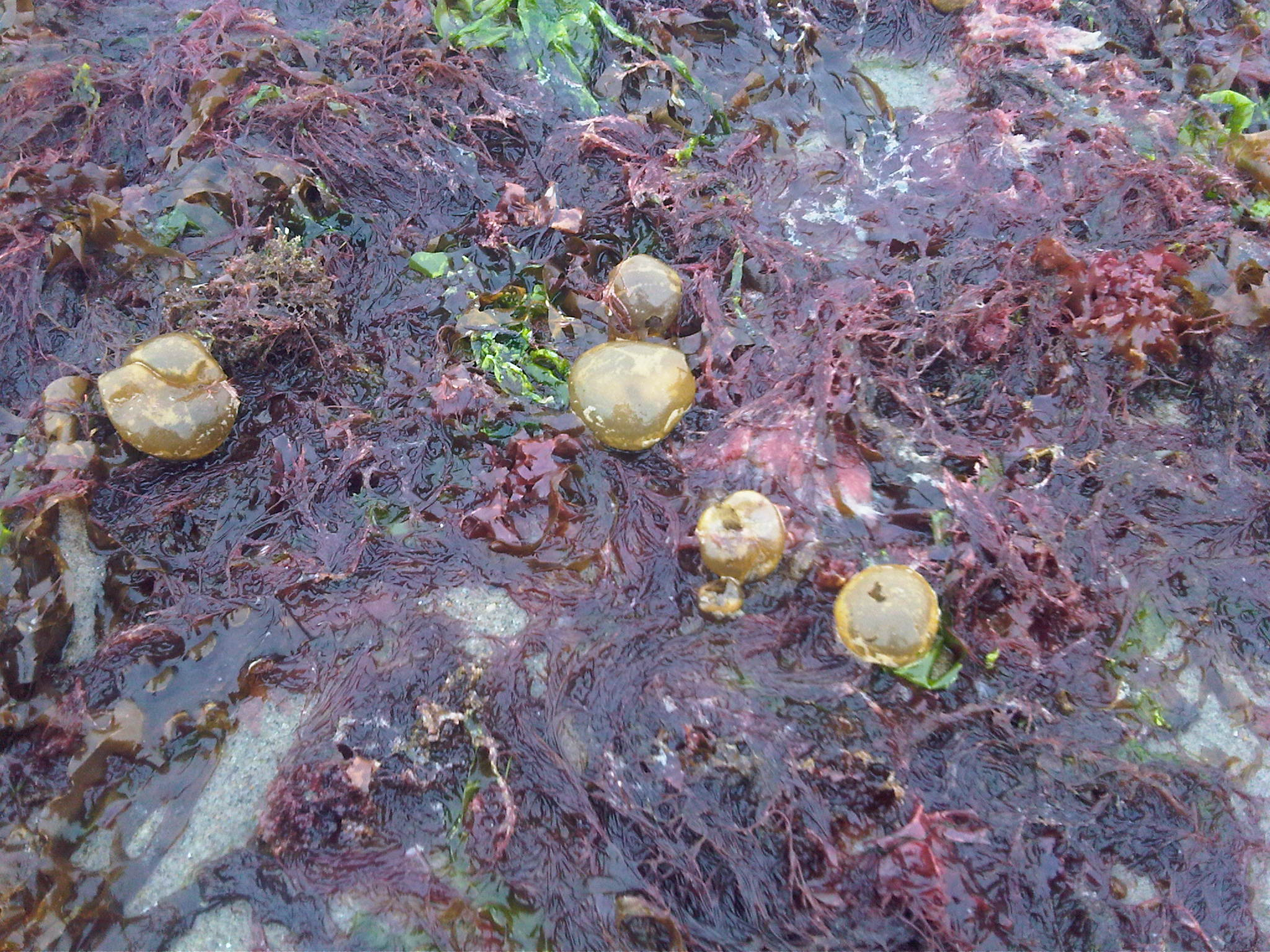 The gas-filled bladders (pneumatocysts) of probably Colpomenia peregrina on red algae, from Isle of Wight, South-England seashores.